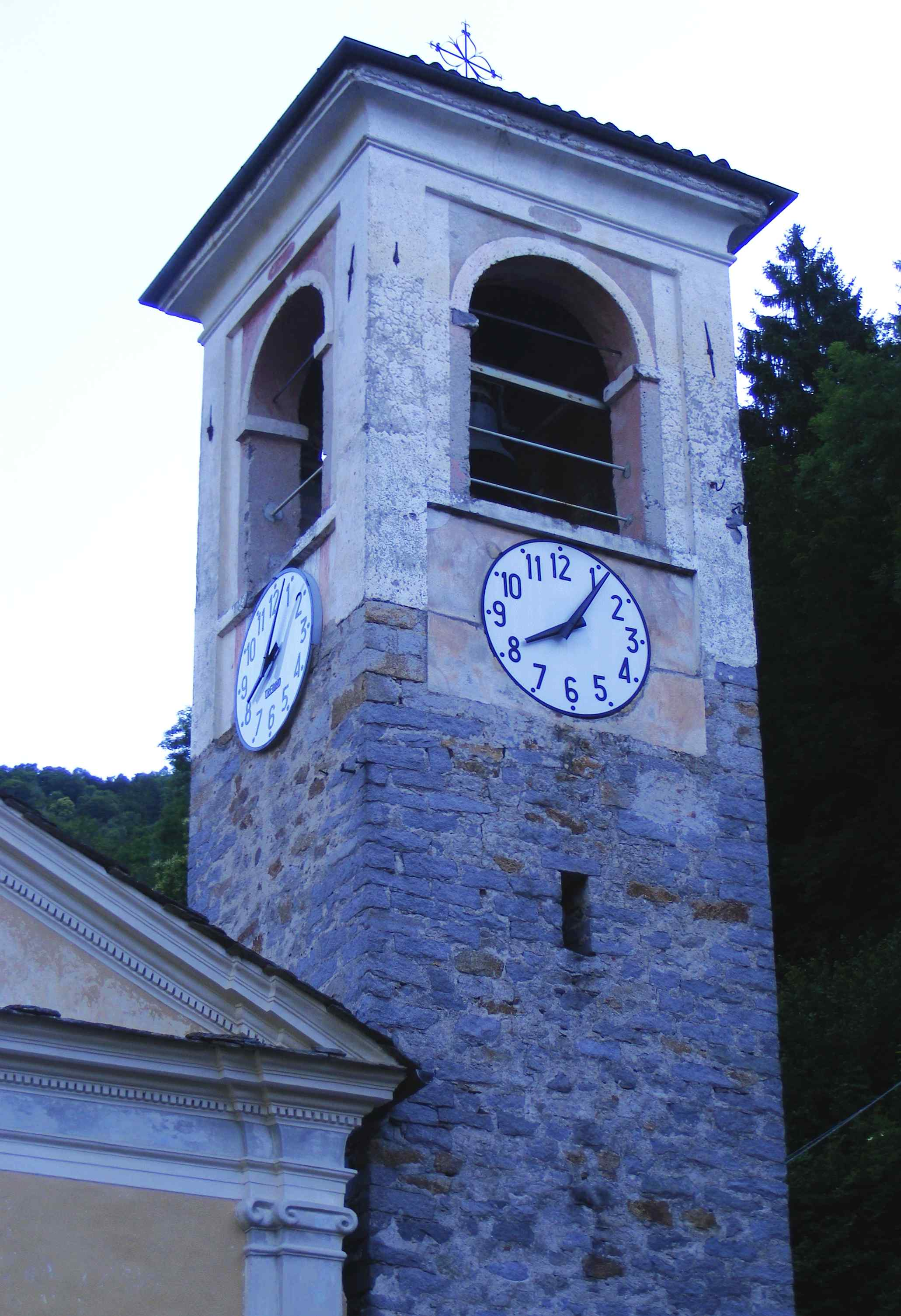 Quittengo (BI, Italy): bell tower